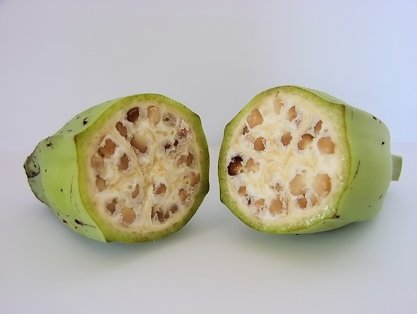 A photograph of the inside of an unripe wild-type banana showing numerous large, hard seeds.